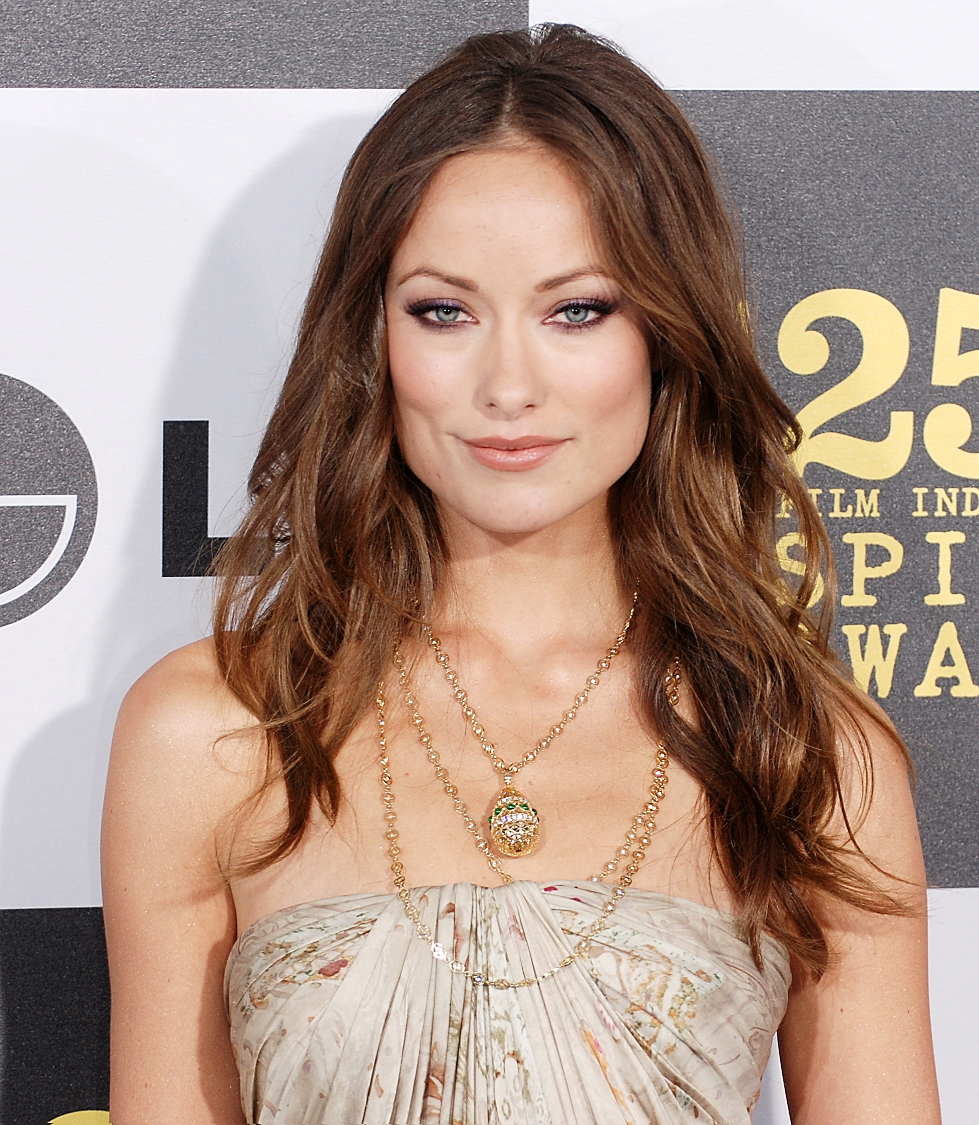 Olivia Wilde in 2010 Independent Spirit Awards